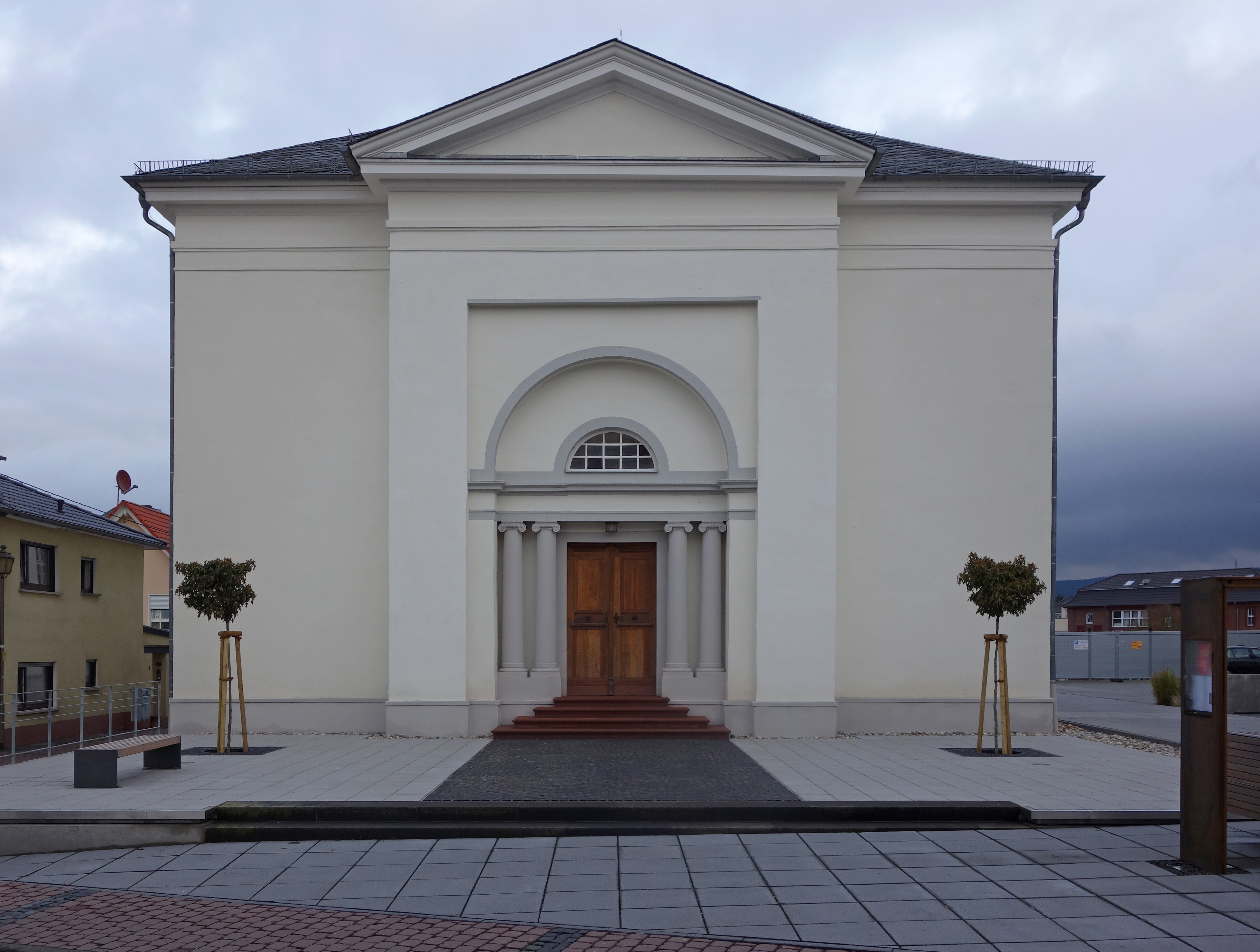 Evangelical Church in Taunusstein-Wehen, constructed in 1810—1812, planned by Carl Florian Goetz (after substantially restoration 2012).